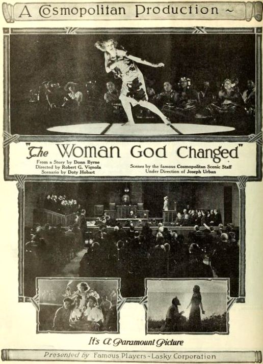 Advertisement for the American drama film The Woman God Changed (1921) with Seena Owen, on page 8 of the June 12, 1921 Film Daily.